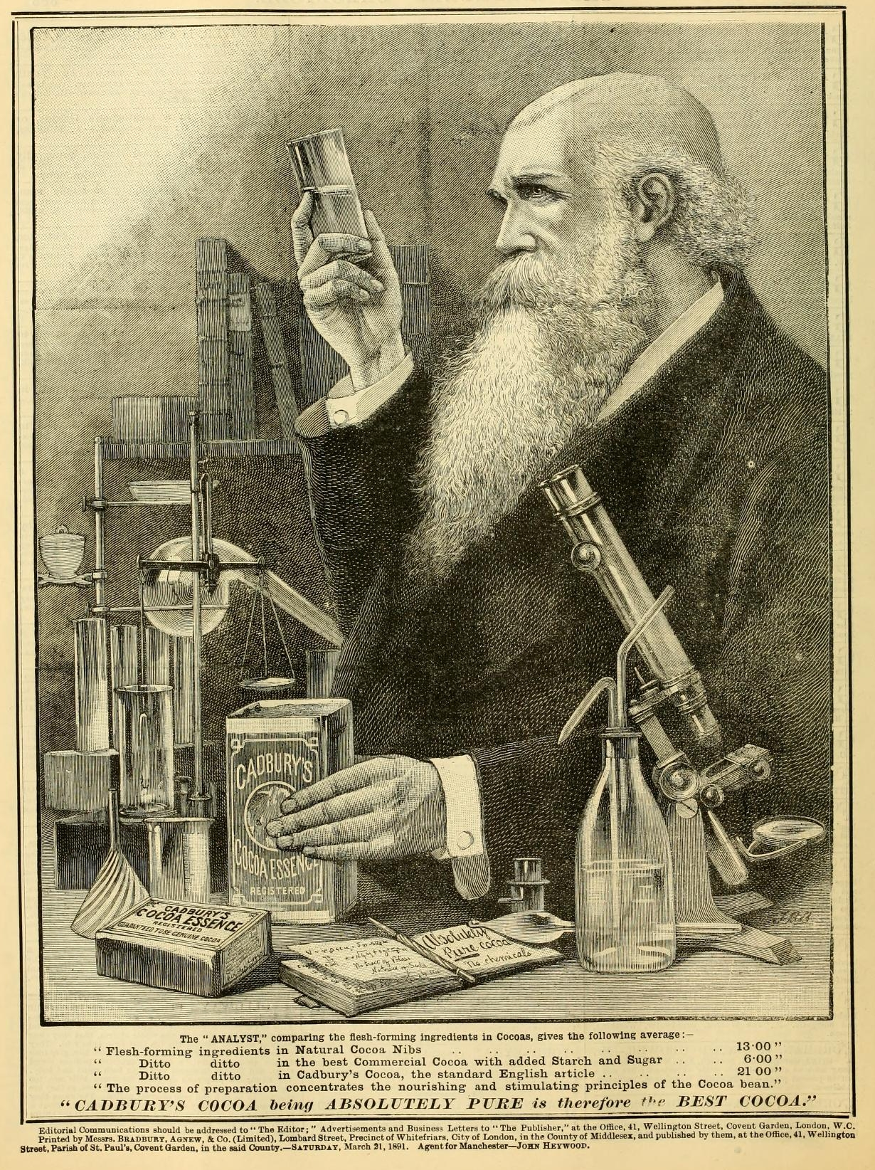 Cadbury advertisement